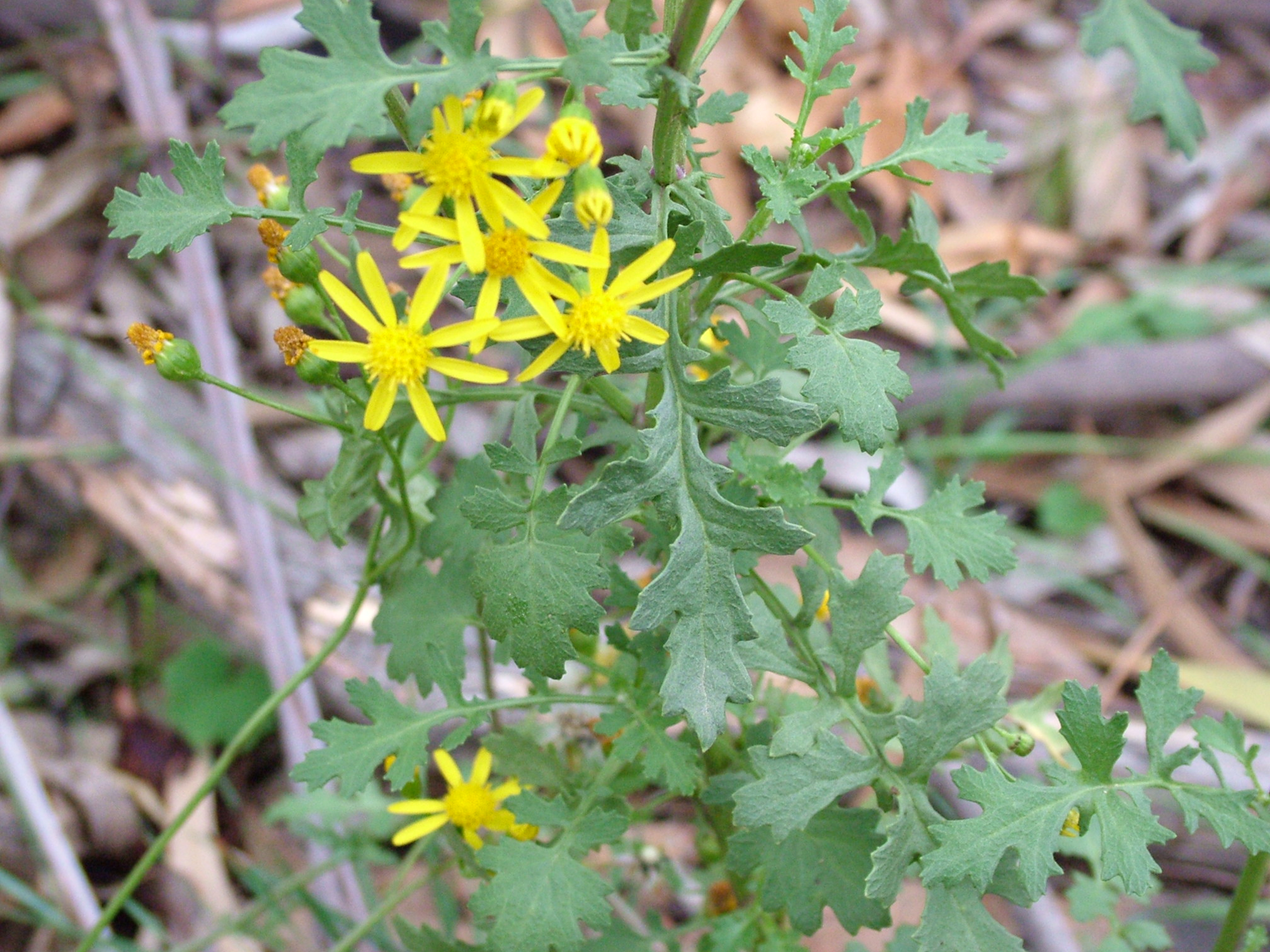 Introduced, warm-season, annual, decumbent or ascending, hairless or sparsely glandular herb to 1 m tall. Stems branch at the base. Leaves are oblong, lyrate, 1.5–8 cm long; lobes toothed, lower leaves petiolate, upper leaves sessile. Flowerheads are terminal in loose corymbs of heads. Heads are 5–8 mm wide and bell-shaped. Involucral bracts 12–14 in 1 row, cobwebby and becoming hairless. Ligulate ray and tubular disc florets are yellow. Flowering is in summer. A native of Africa, it is a weed in wheat-growing areas; recorded in the Rylstone district.